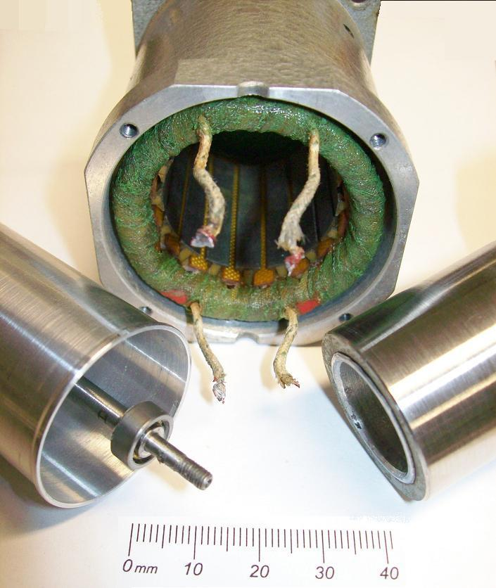 ferraris asynchron motor parts